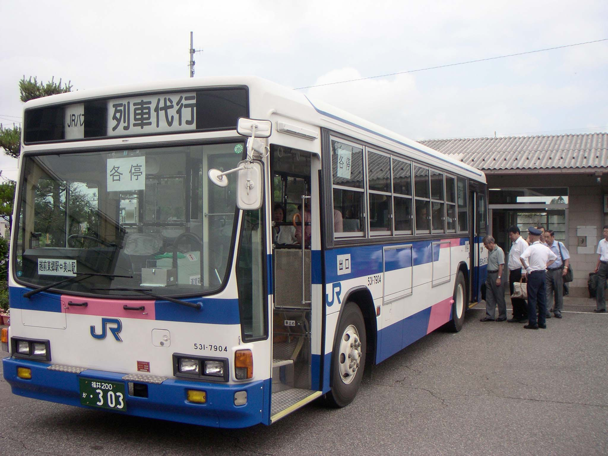 Bustitution on Etsumi-Hoku Line. At Echizen-Togo Station